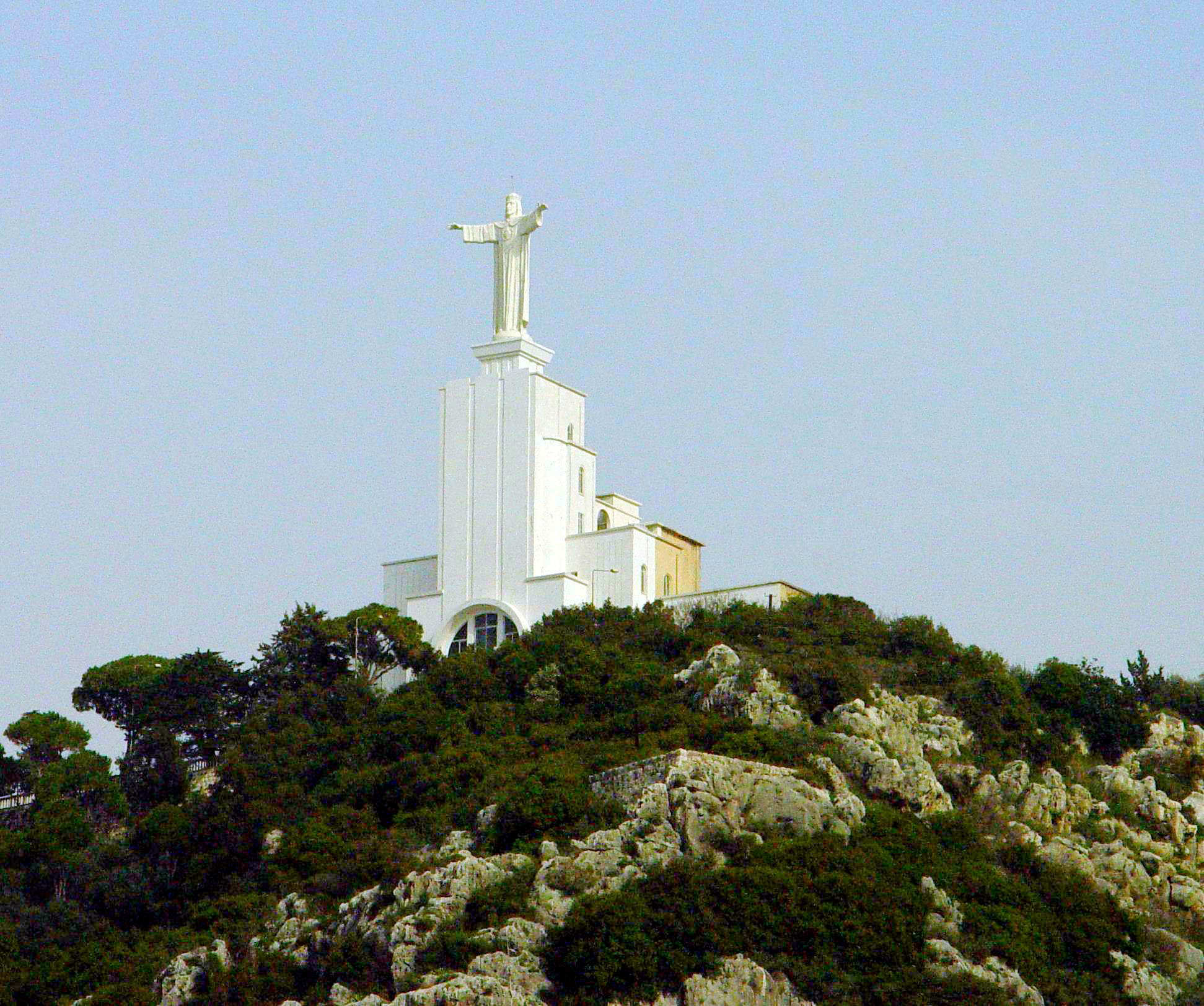 Replica of the one in Rio De Janeiro Brazil. it is past Nahr el Kalb on the coast